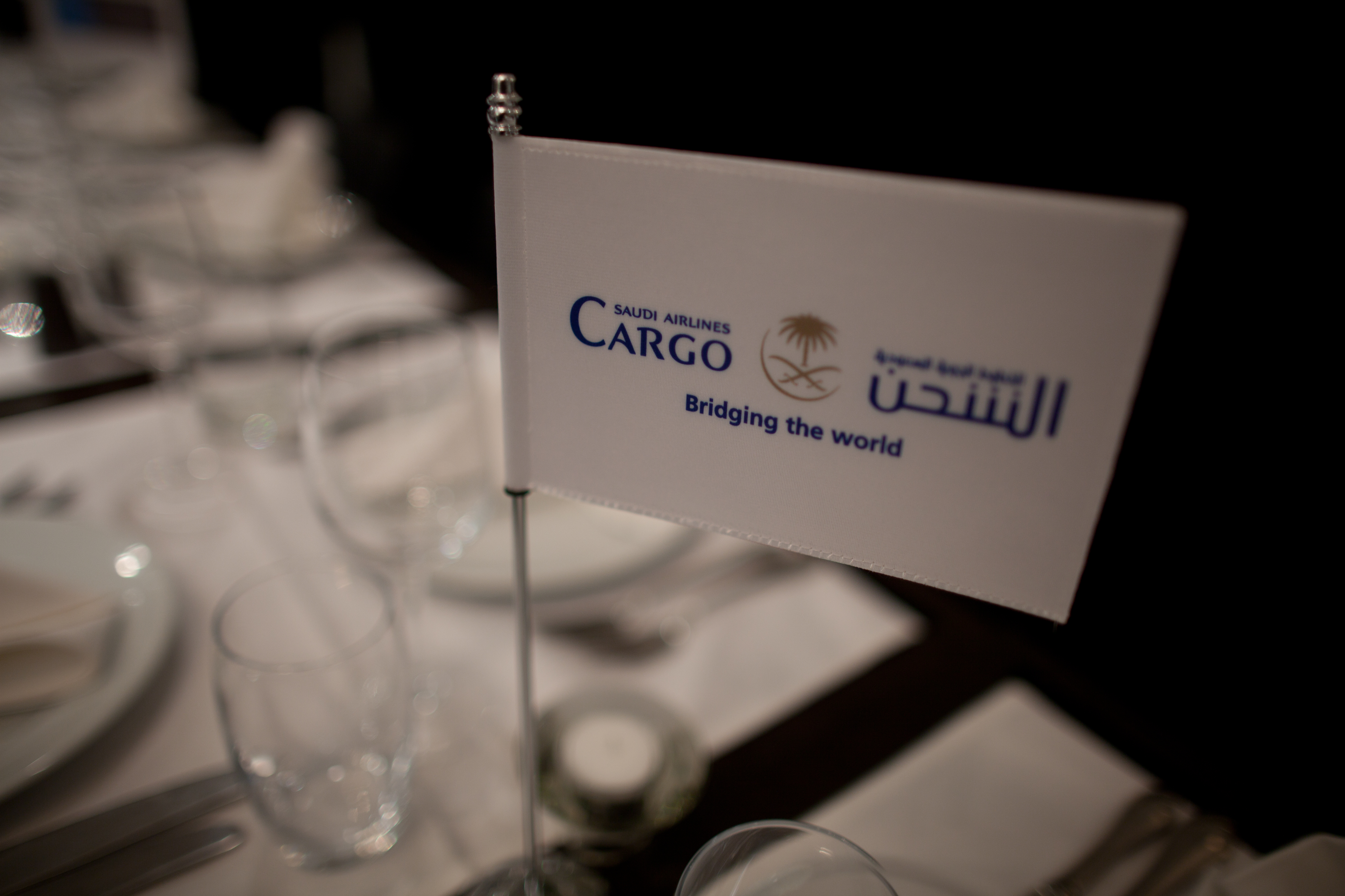 25 years Saudi Airlines Cargo @ Brussels Airport